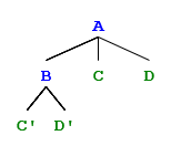 A tree generated from the CF-PS rules A→B C D and B→C D